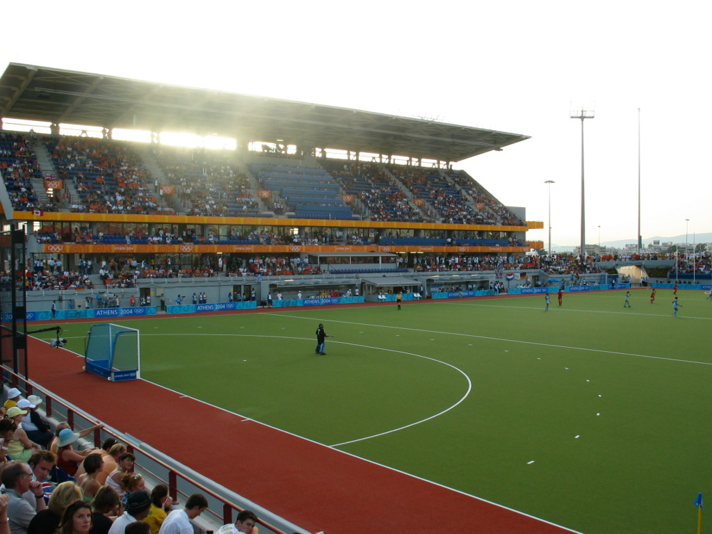 Main Hockey Stadium at Athens 2004